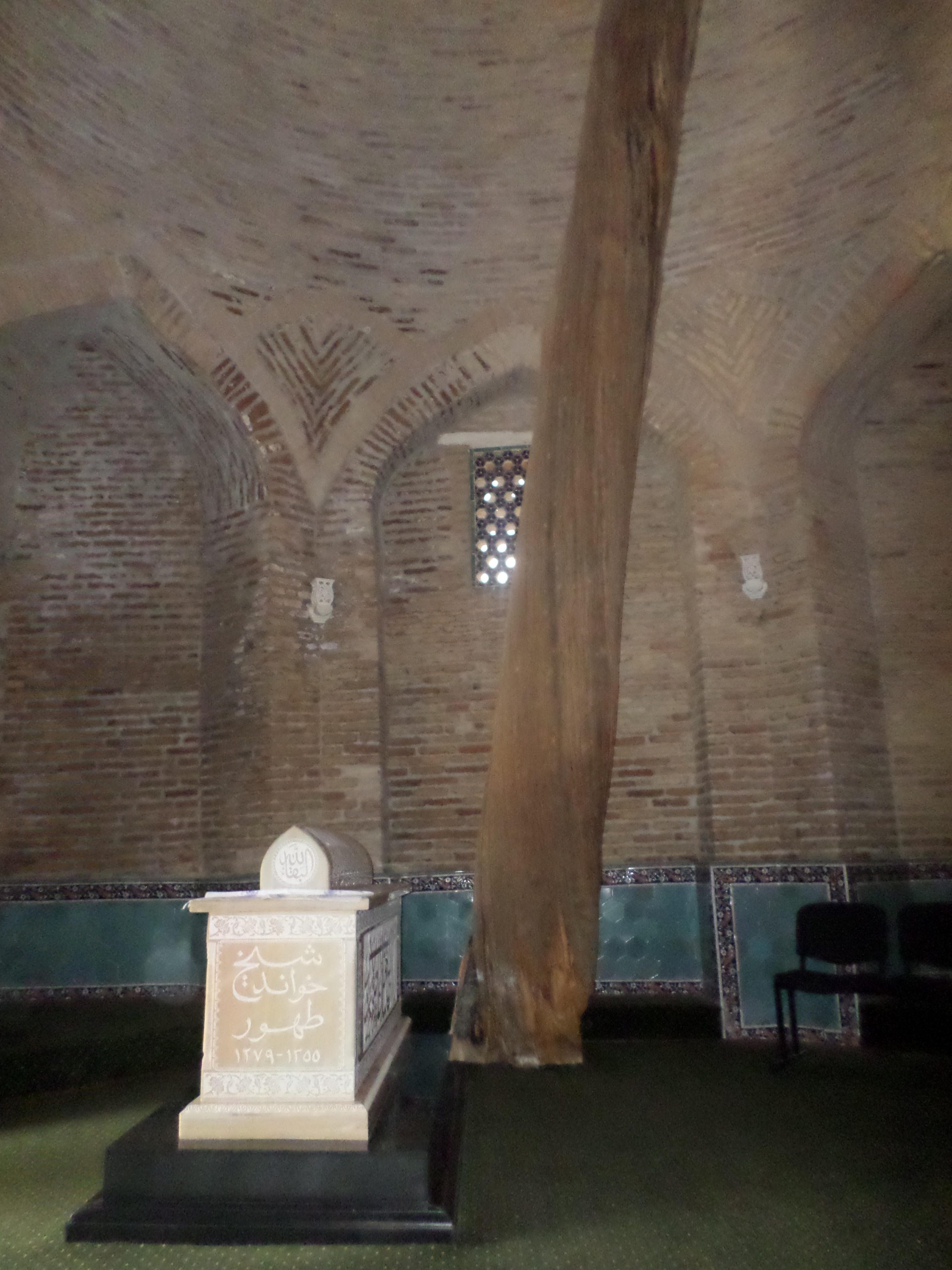 Mausoleum Hovendi